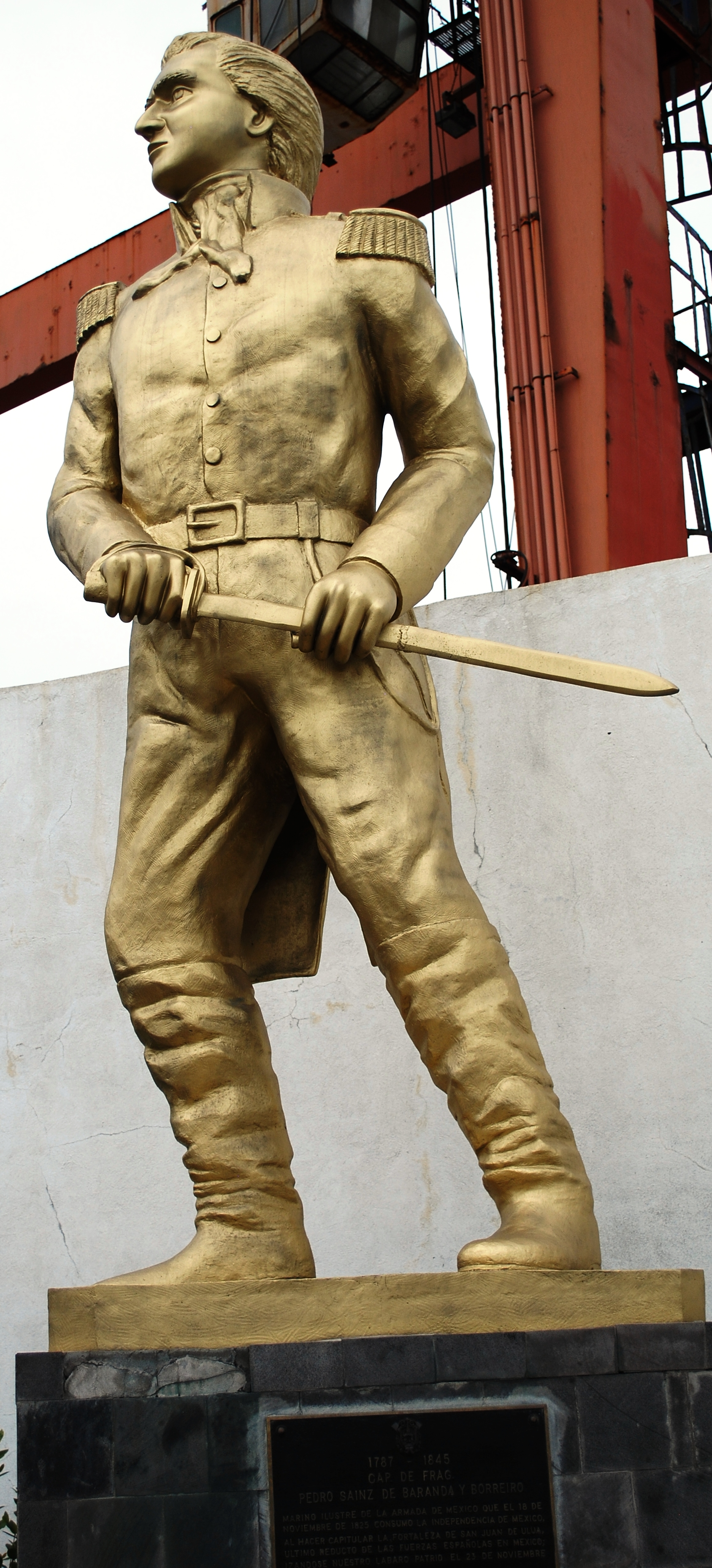 Statue of Pedro Sainz de Baranda y Borreiro by unknown artist at Fort San Juan de Ulua, Veracruz